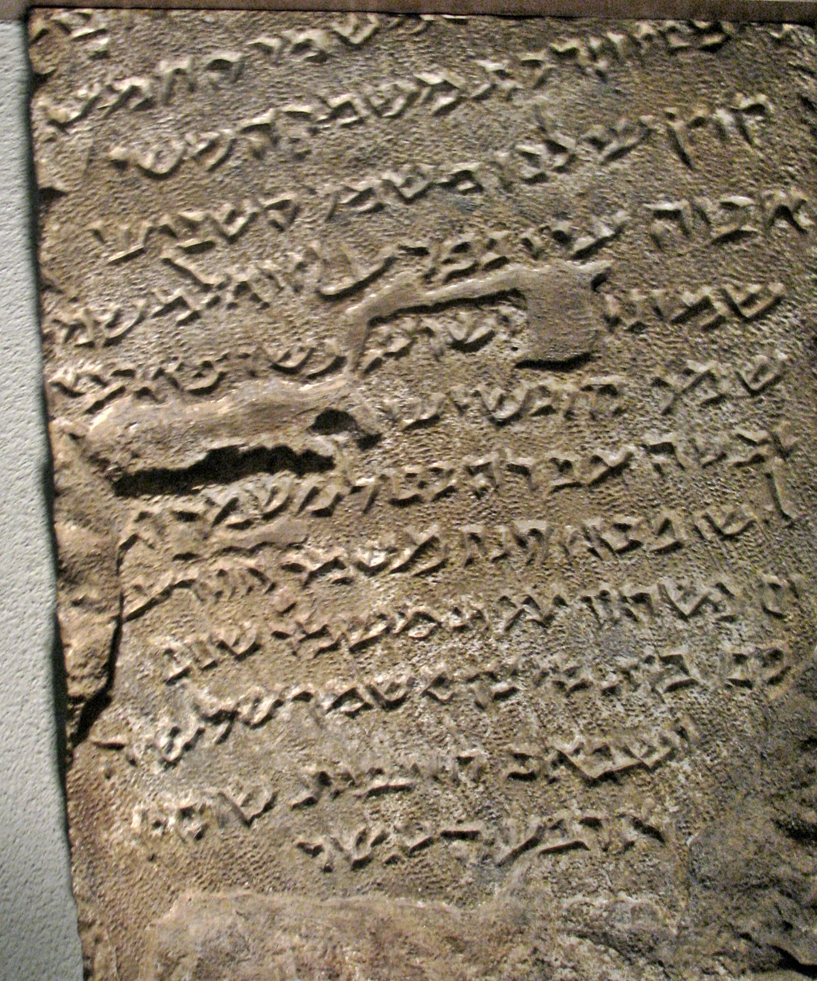 This is a photo of an exhibit at the Diaspora Museum, Tel Aviv - Beit Hatefutsot. The note beside says the following: A Reminder of the Temple: In 1970, In the mosque of a village not far from San'a, the capital of Yemen, a stone was found buried in the ground, bearing an engraved inscription. The inscription listed the 24 priestly shifts which served in the temple. It apparently came from a bombed synagogue which provided stones for the mosque.